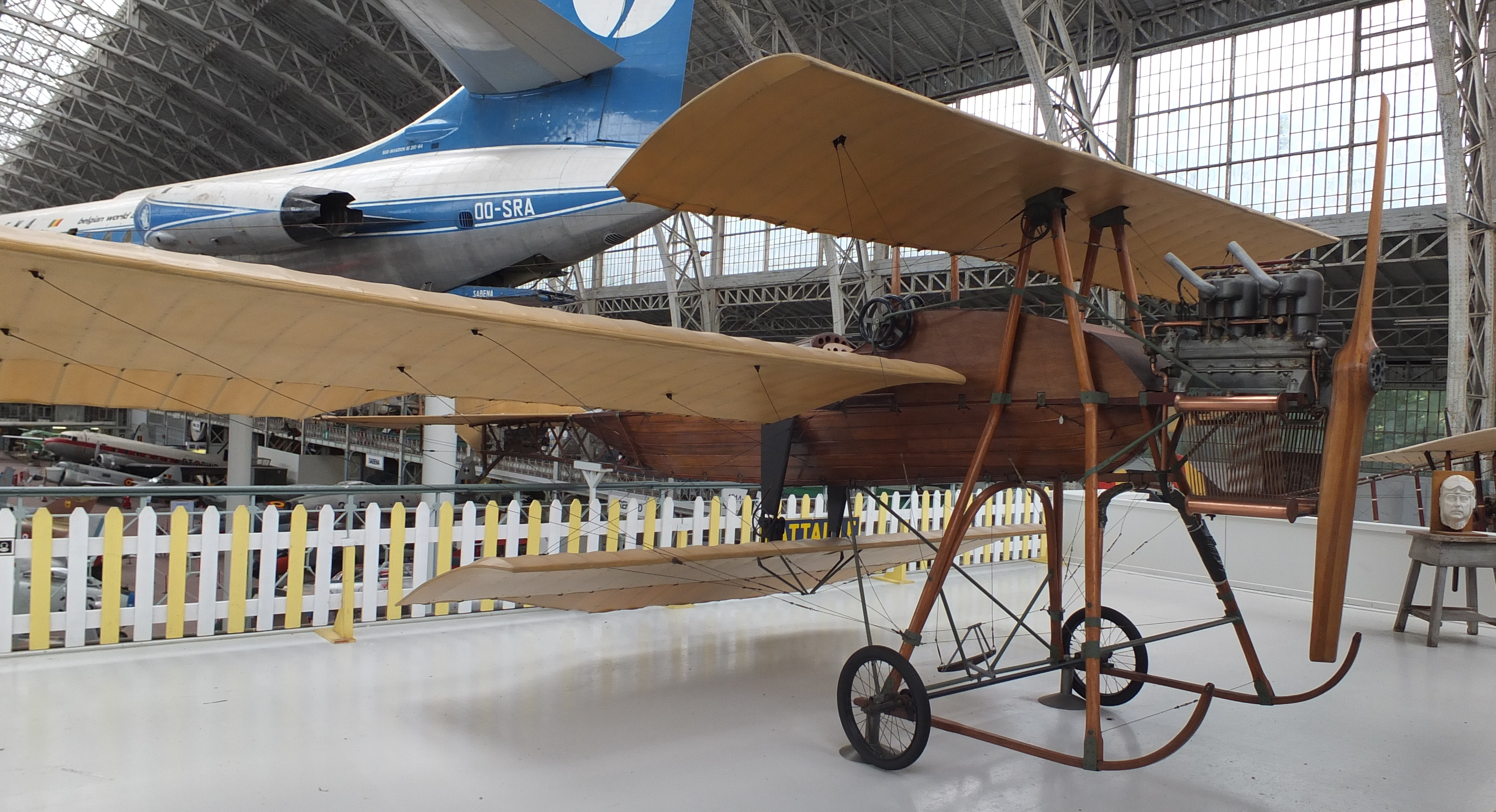 In 1910 César Battaille and Henri Jonnieau built this (now restorated) triplane with a patented system to adapt the angle of inclination on the top and bottom wing. Tests were halted in 1912. It is the only Belgian airplne from this period. The original motor was a Grégoire GYP 40 hp.